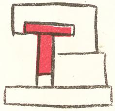 The Aztec day sign calli (house).